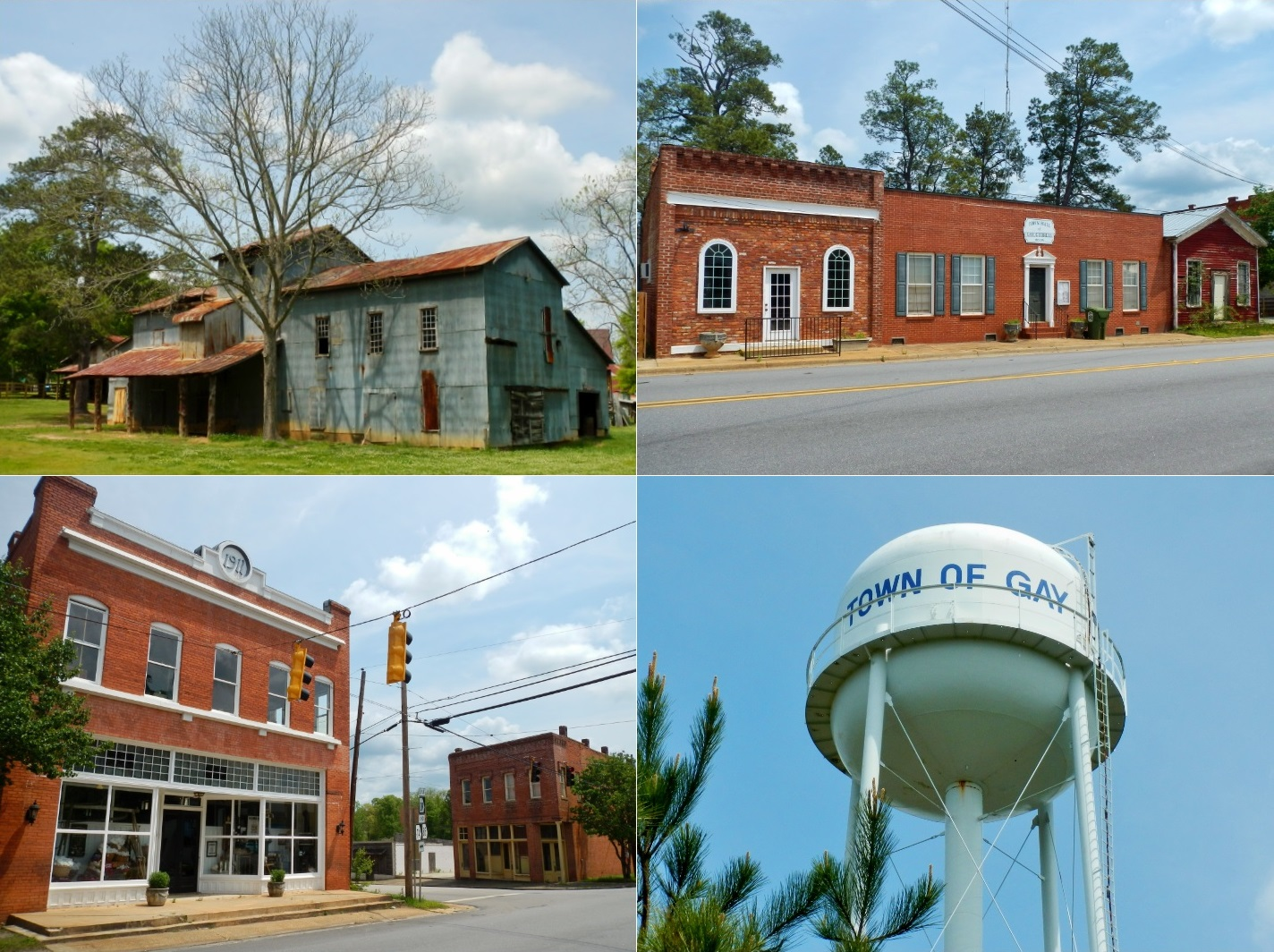 This is a series of photos that I shot of Gay, Georgia and personally assembled into this photo collage.